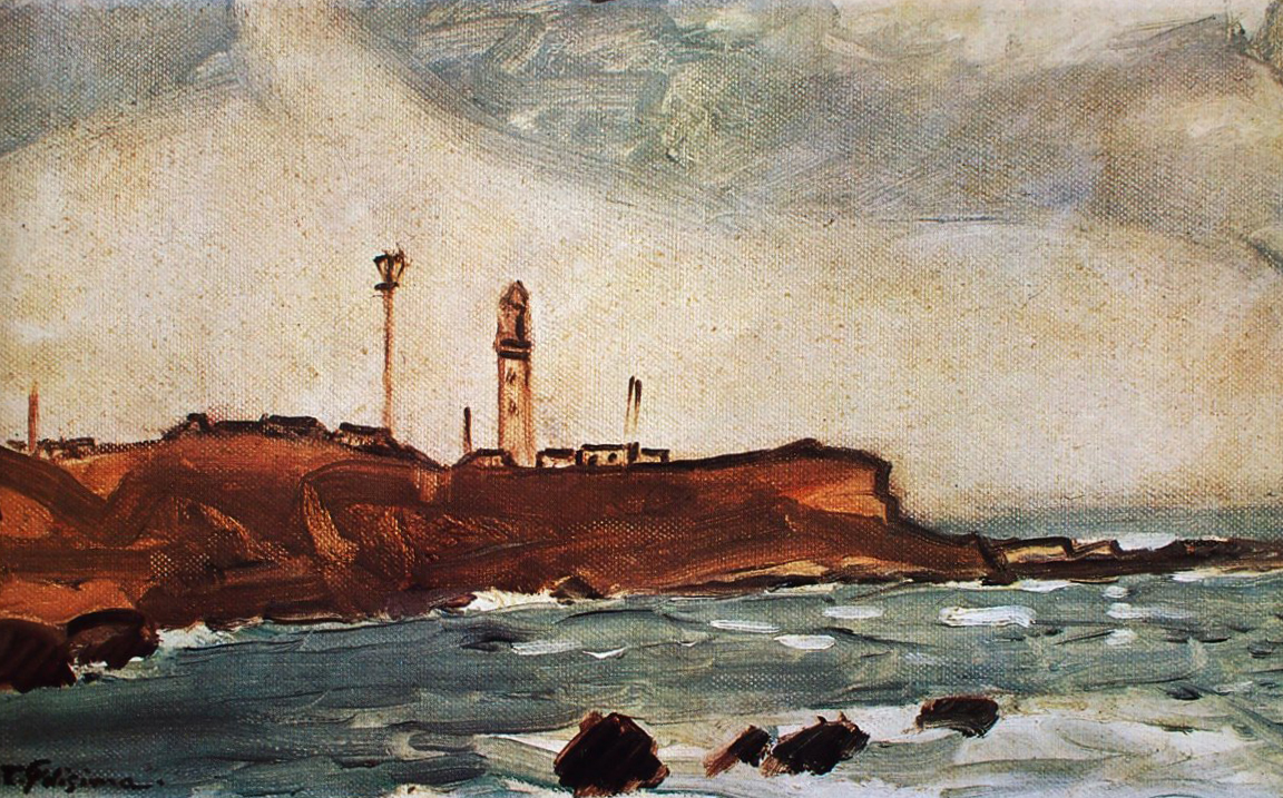 Cape Inubo Lighthouse, by Fujishima Takeji